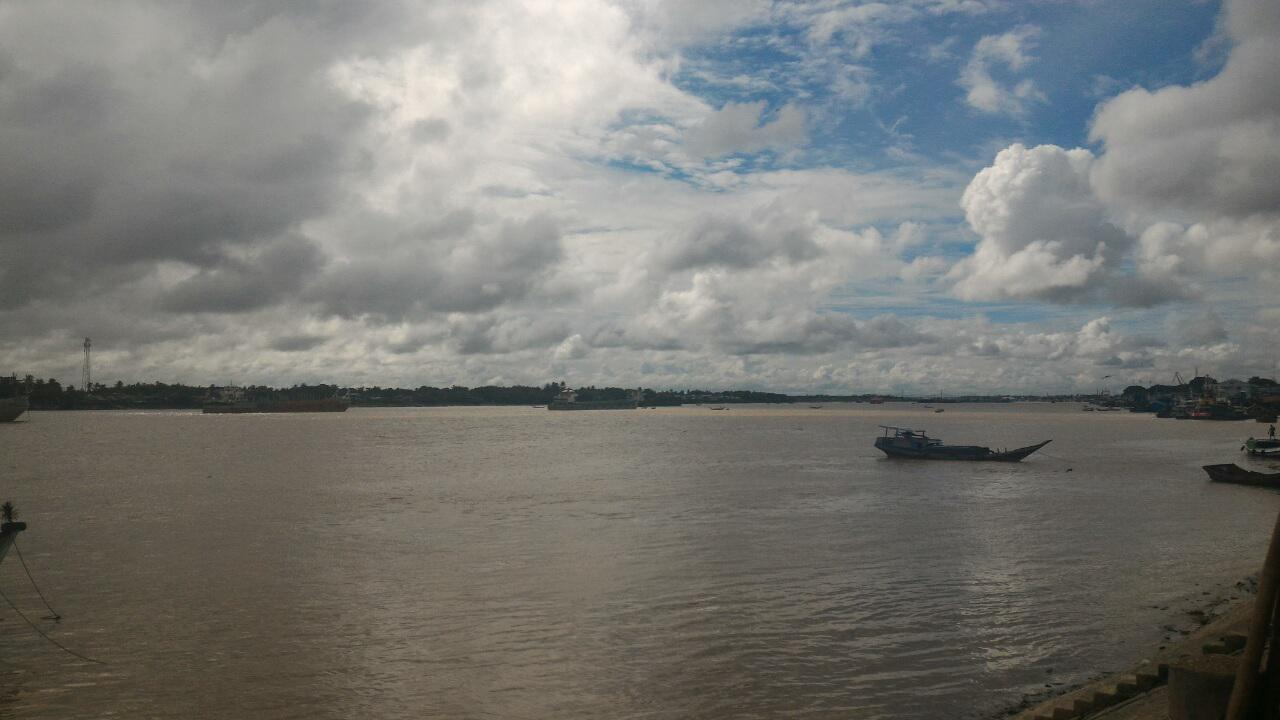 View From Kyee Myin Dine to Proposed New City Project